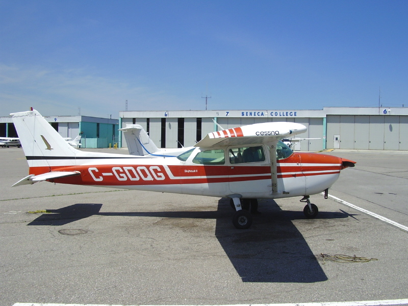 Cessna 172 (C-GDQG). One of the 30 flight school aircraft